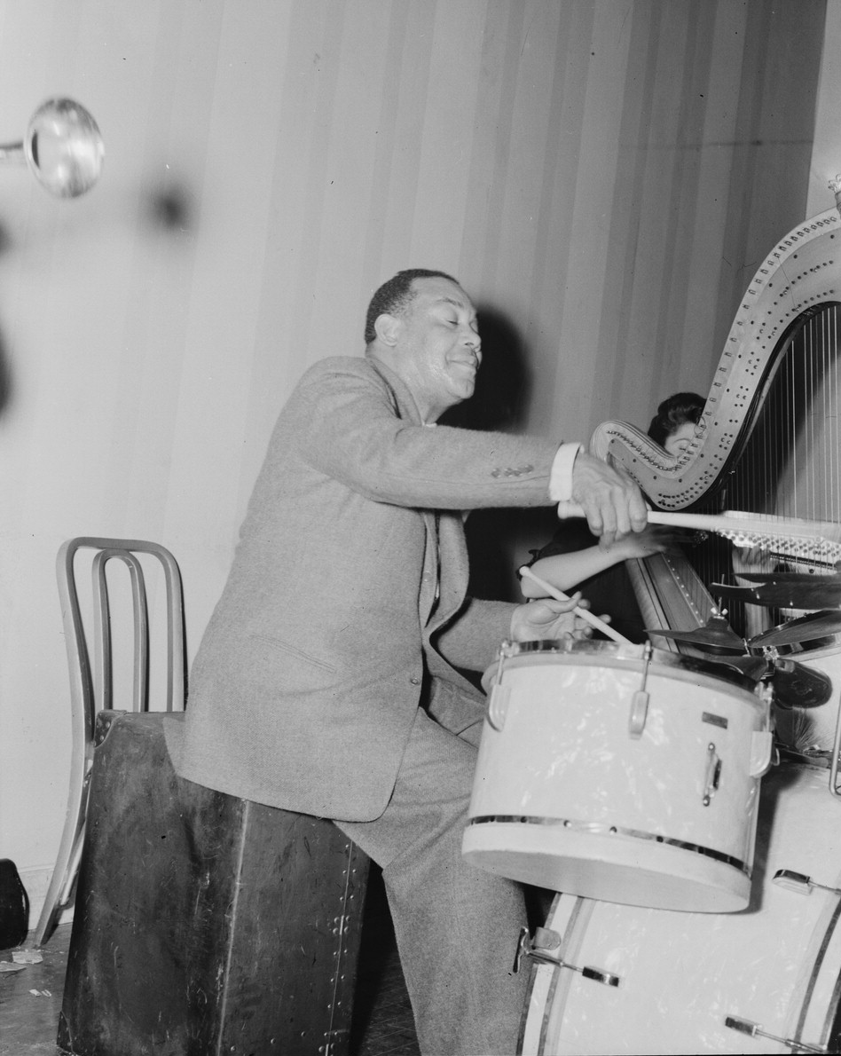 Portrait of Zutty Singleton and Adele Girard, National Press Club, Washington